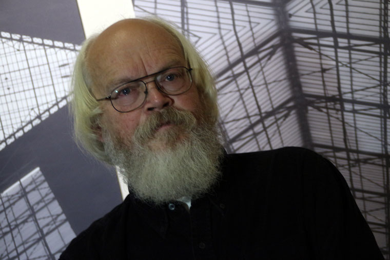 Péter Rainer a Hungarian Architect